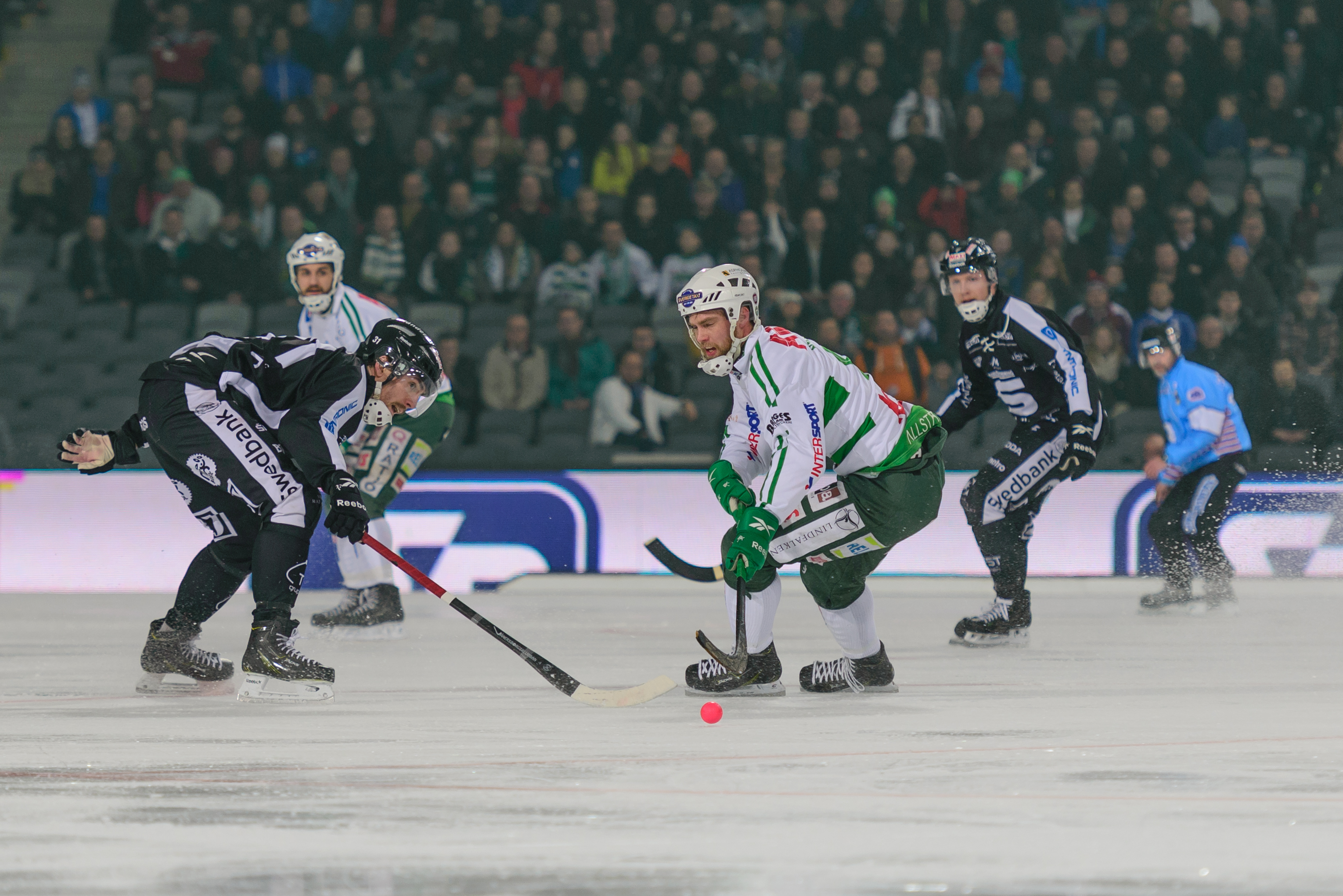 Swedish men's bandy championship final game of 2015, Sandvikens AIK (black)-Västerås SK (green/white) 4-6.